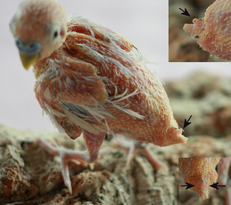 Uropygial gland on a five year old ill budgerigar